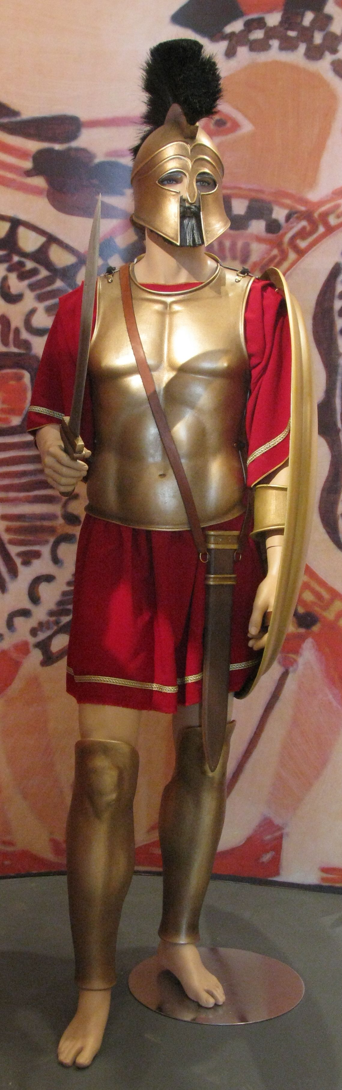 Athenian hoplite holding an aspis and a kopis. Exhibition "Democracy and the Battle pof Marathon" 23 Oct. 2010 - 1 Nov. 2010, Zappeio, Athens, Greece.